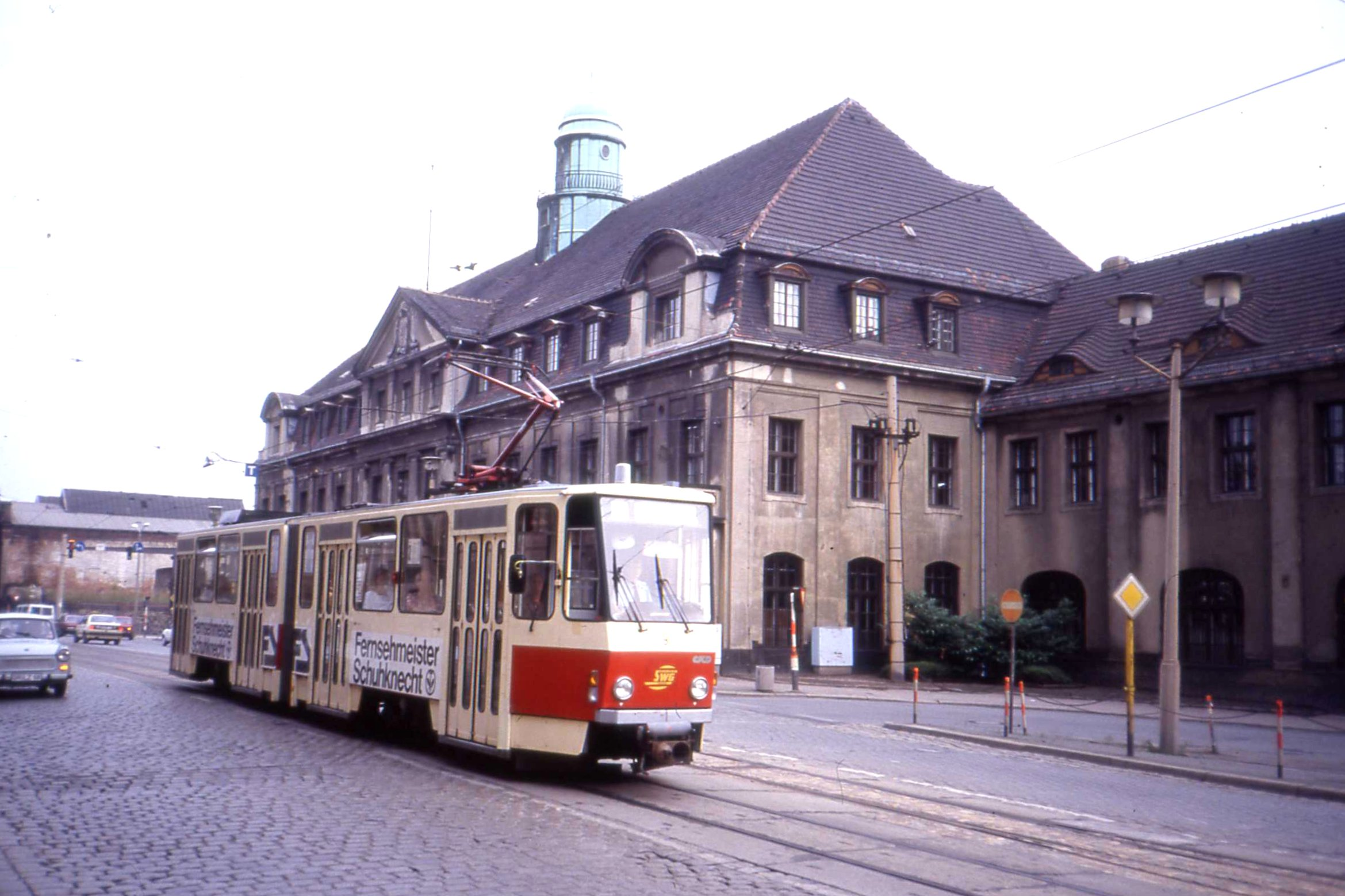 Tatra articulated unit no 8 outside the main railway station, from which I had just emerged with my faithful touring bicycle.. It was a time of great change, with western cars flooding the roads, and accident rates on the rise, but the Trabant was still a common sight. One of 11 Tatra KT4D trams bought by Goerlitz between 1983 and 1990. Subsequently no 008, now no 308.